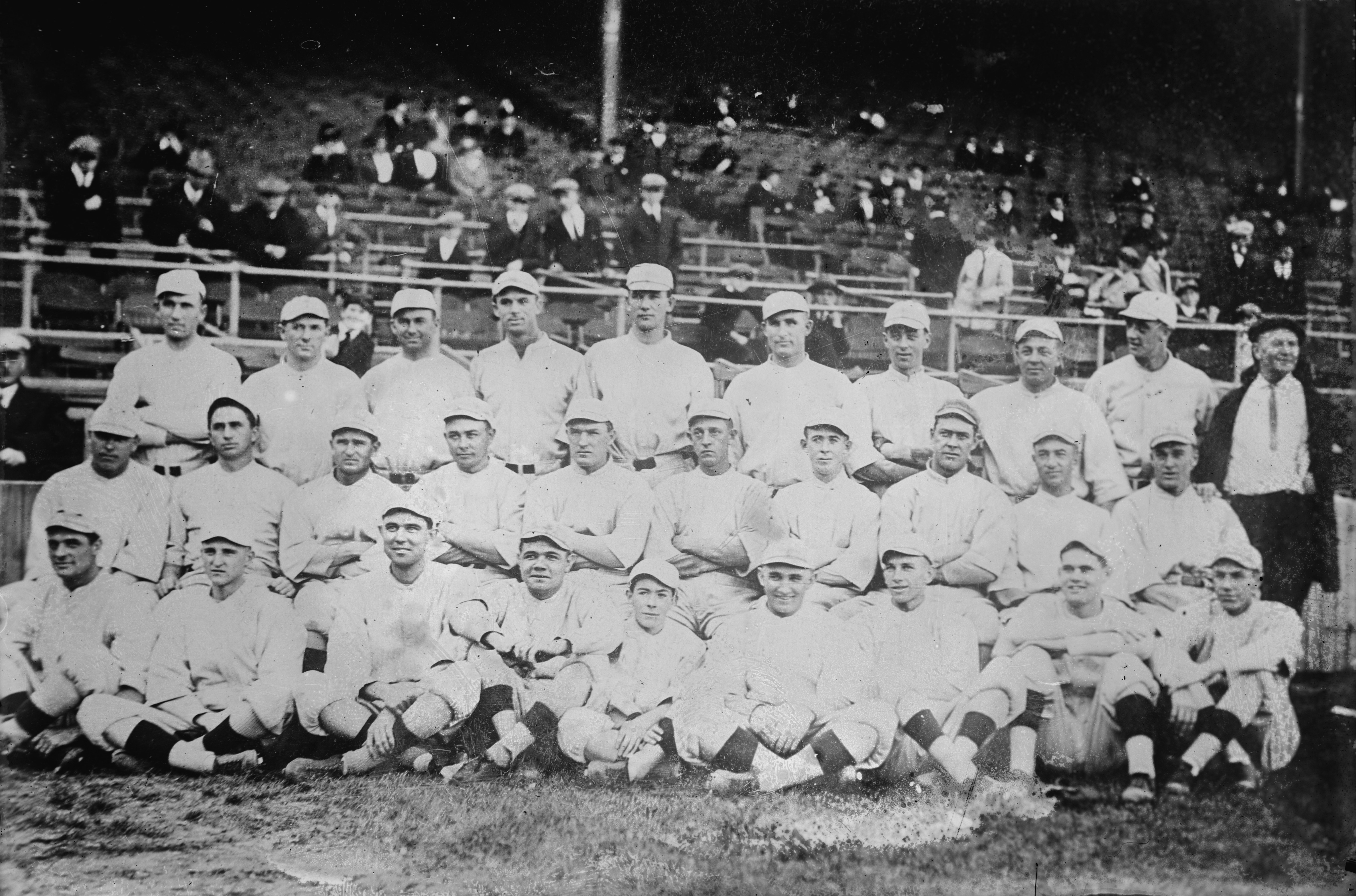 The 1916 Boston Red Sox. Babe Ruth is bottom row, 4th from left.